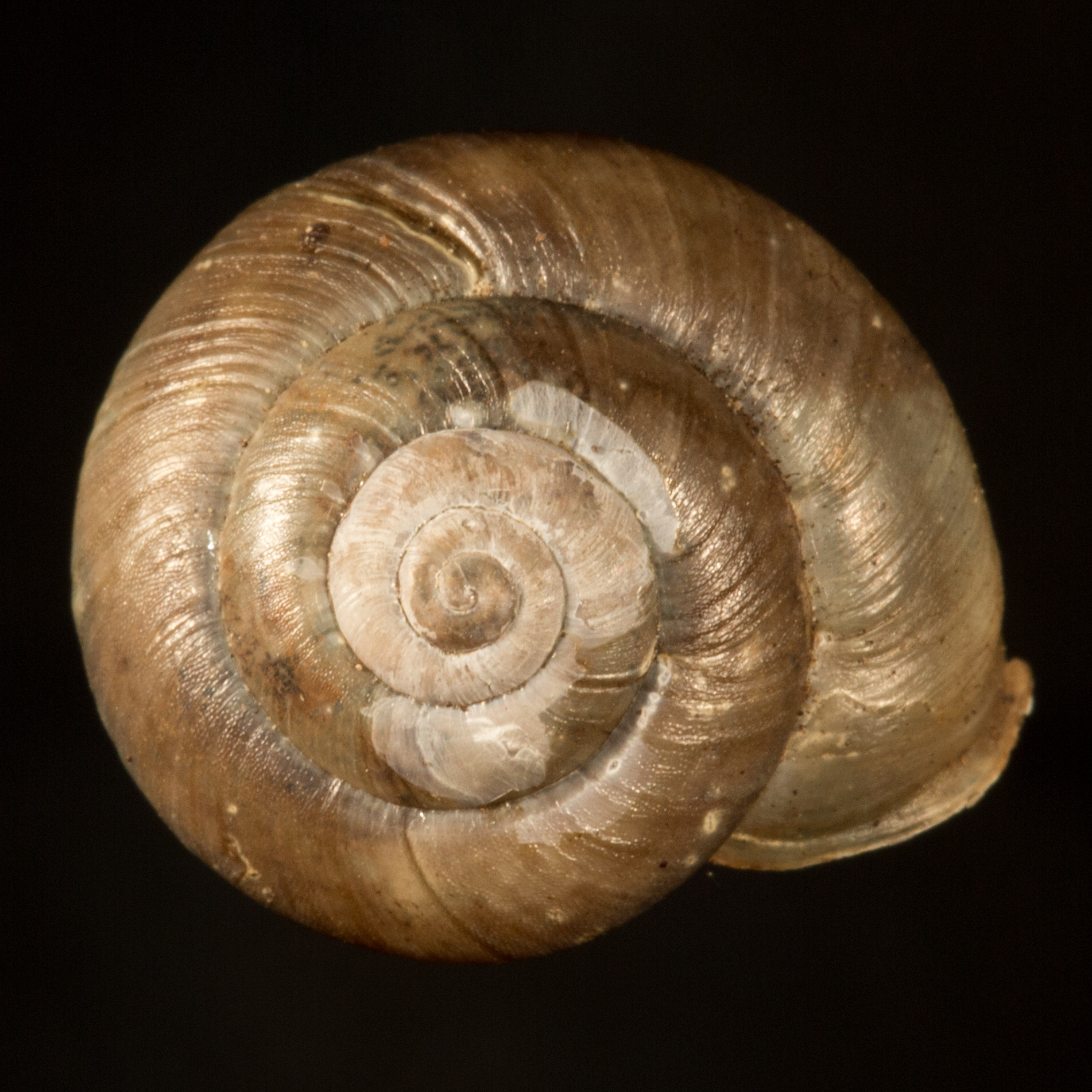 Urticicola umbrosus apical